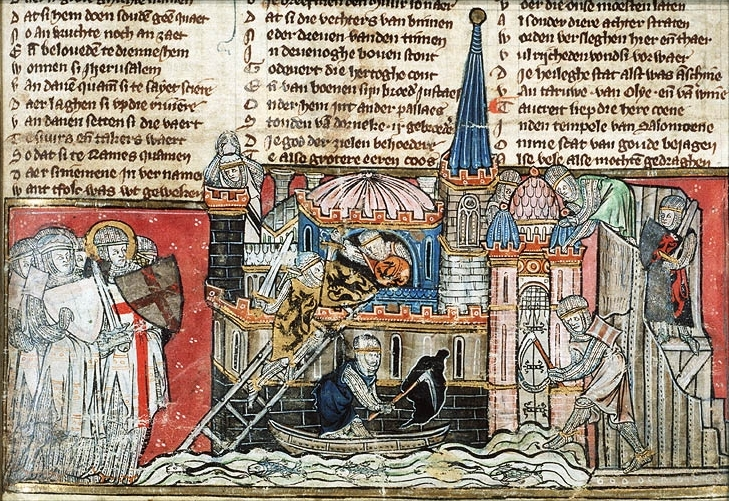 The Crusaders capture Antioch